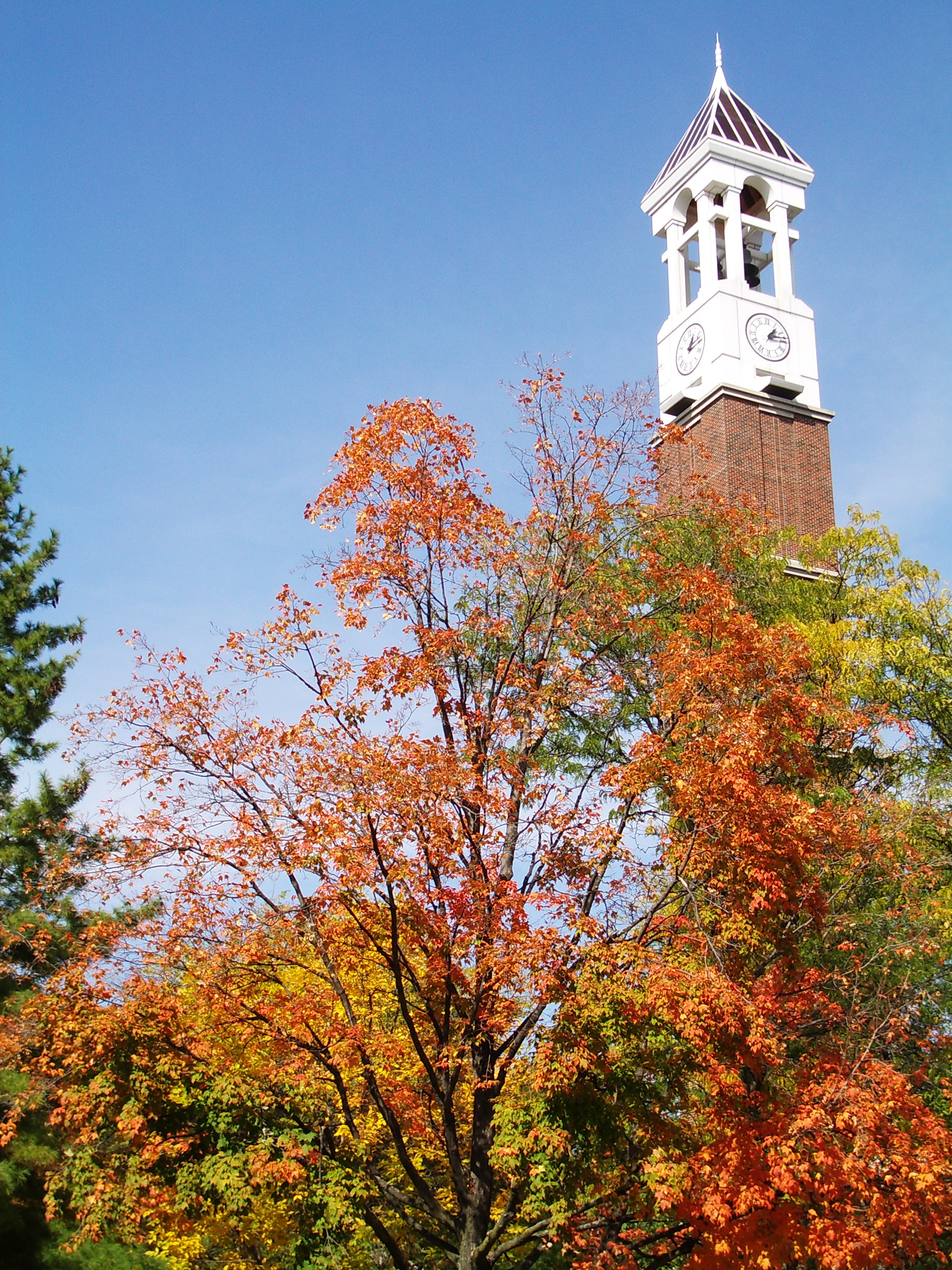 Bell Tower in Purdue University.